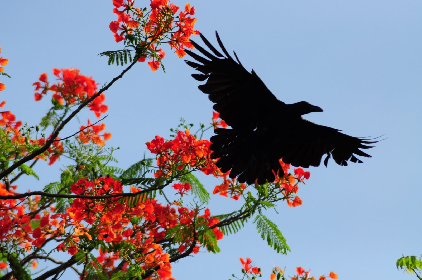 Indian Crow - South India